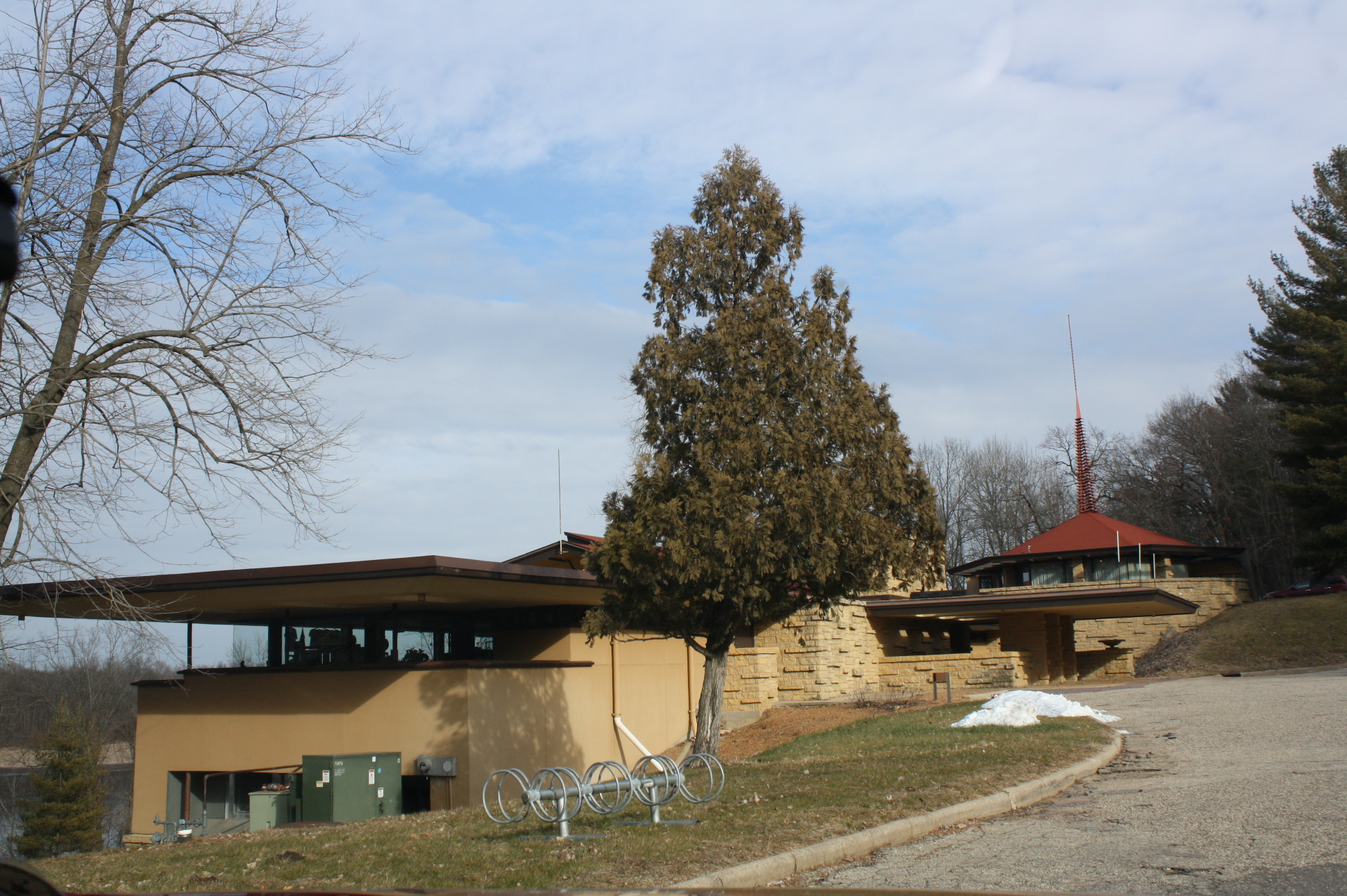 The Riverview Terrace Restaurant designed by Frank Lloyd Wright. It is used as the Frank Lloyd Wright Visitor Center.